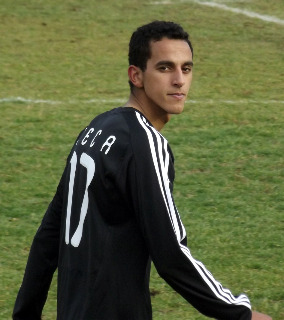 Portuguese footballer Zeca, playing for Panathinaikos against Agrotikos Asteras.